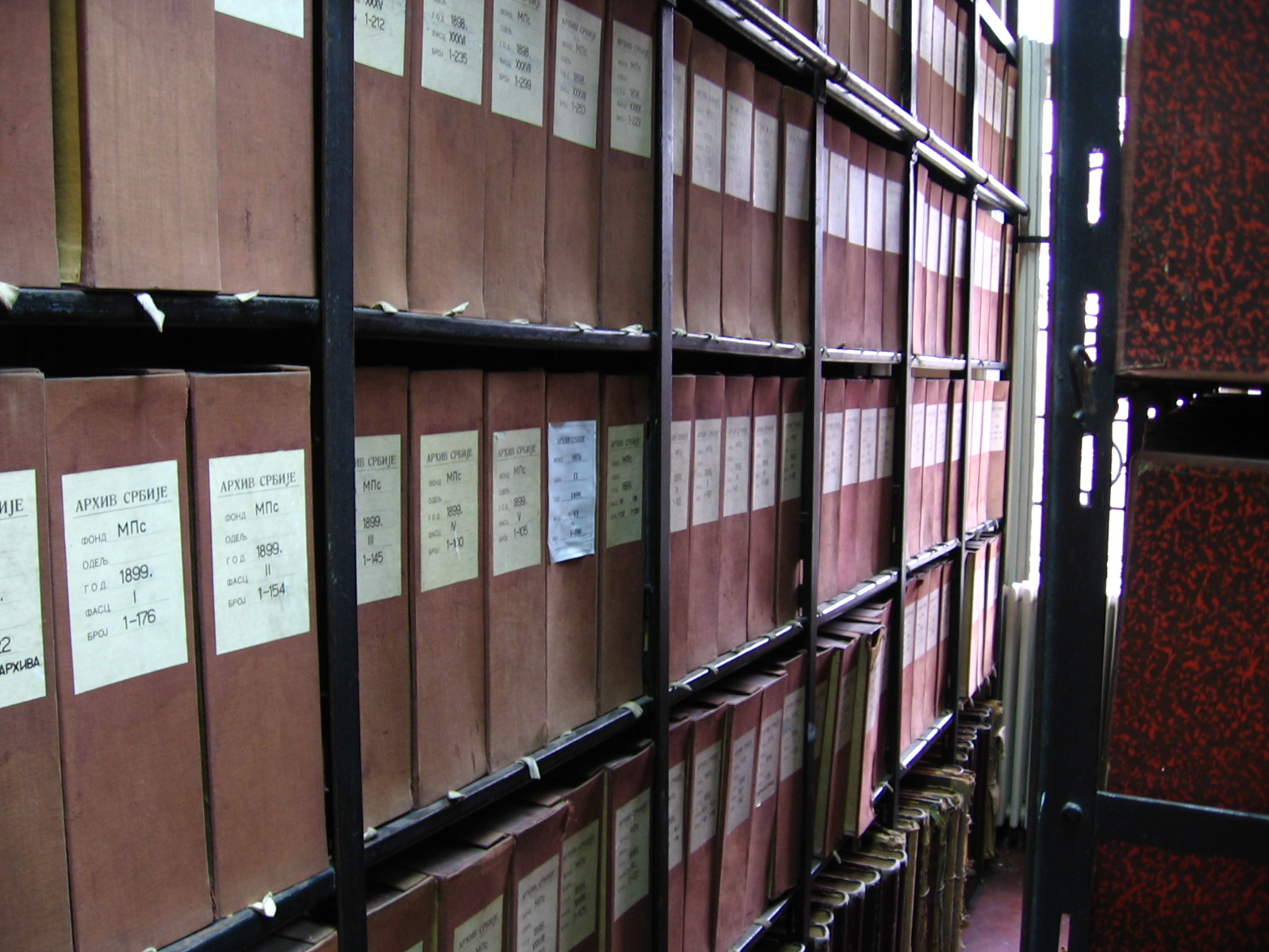 archives